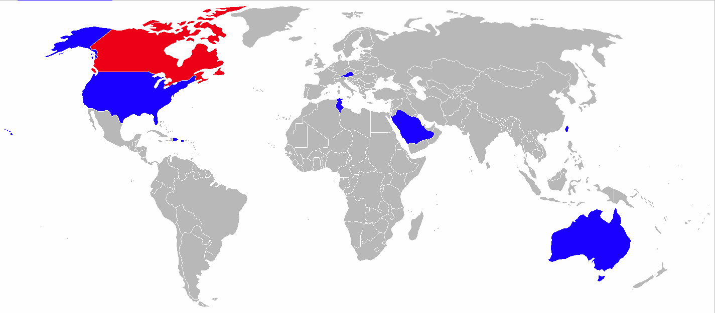 OH-58 Kiowa Operators 2010 (current in blue - former in red)